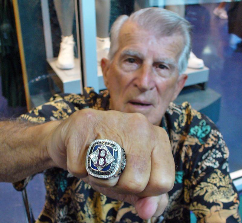 Johnny Pesky with World series ring at Tropicana Field